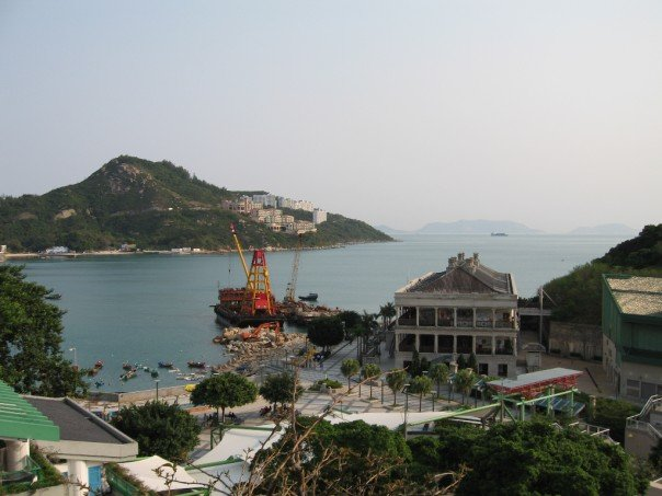 Stanley Bay and Murray House in Stanley, Hong Kong